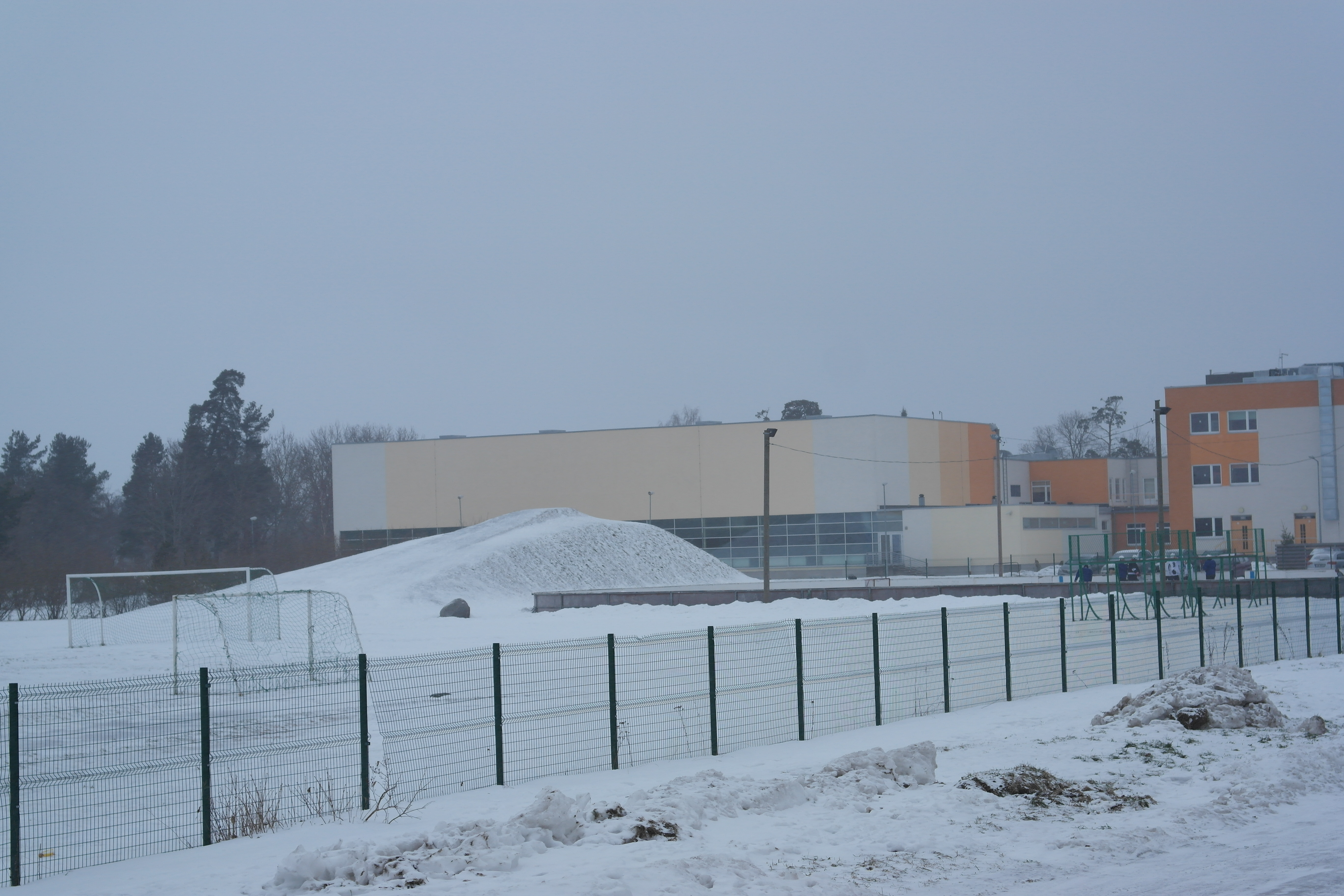 Aruküla staadion spordihoonega